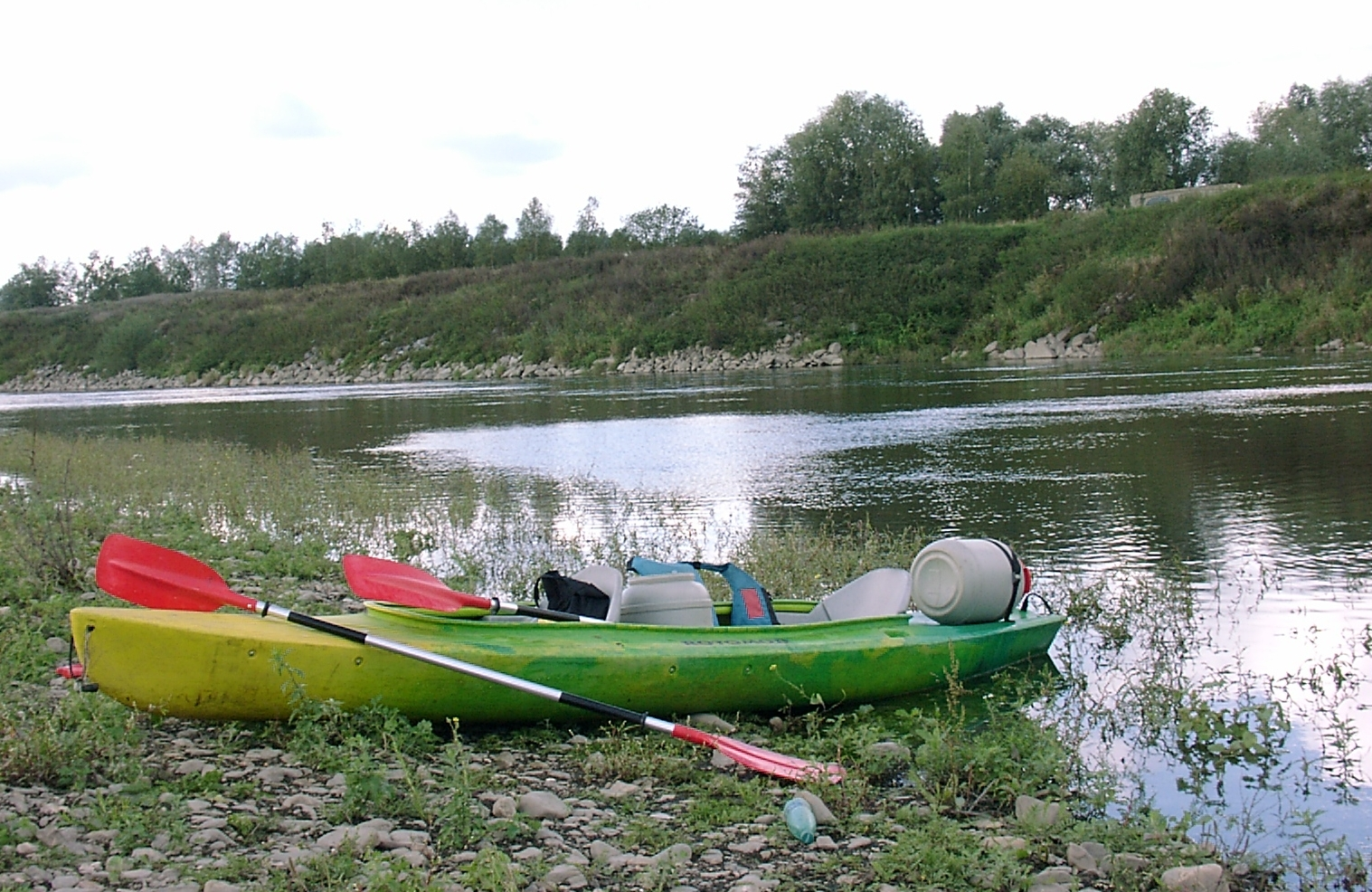 Kayak on the Meuse River bank near Maasband